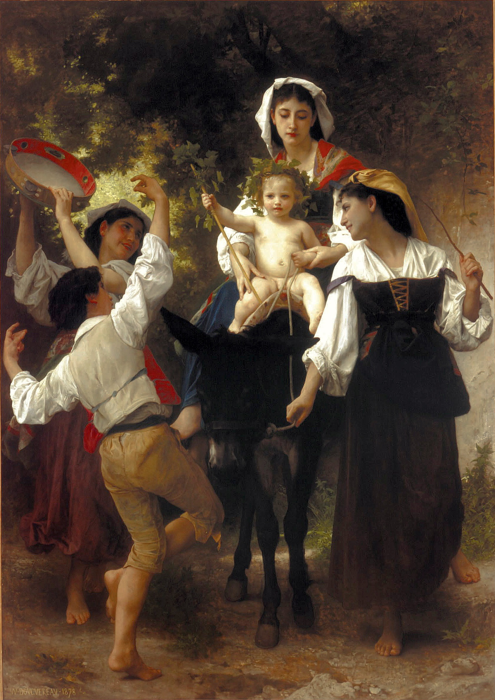 Per References: “The commission for the above picture was placed with M. Bouguereau, by the late A. T. Stewart, in 1874, with the understanding that the painting was to be the artist's greatest work, and not a nude subject; the picture was not finished until after the death of Mr. Stewart. When finished in 1878, M. Bouguereau stated that he considered the work his masterpiece.”